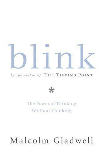 Cover for Blink: The Power of Thinking Without Thinking